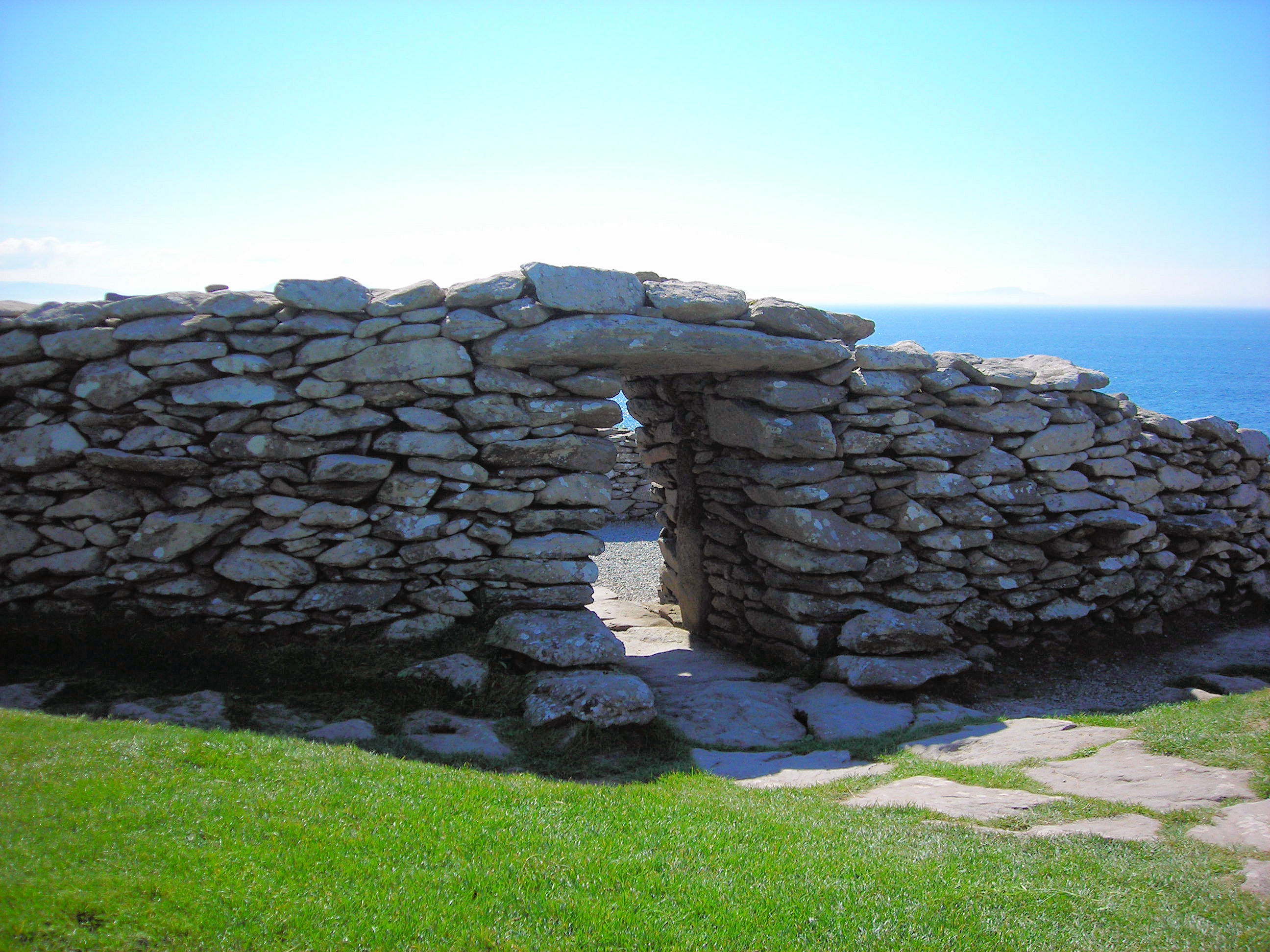 The location of An Dún Beag, or Dunbeag Promontory Fort, makes it one of the most dramatic archaeological sites on the peninsula.